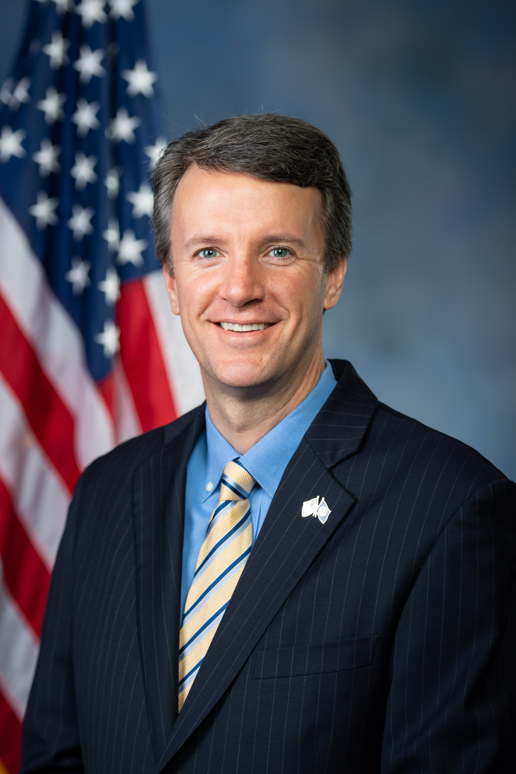 Rep. Ben Cline (R-VA06)